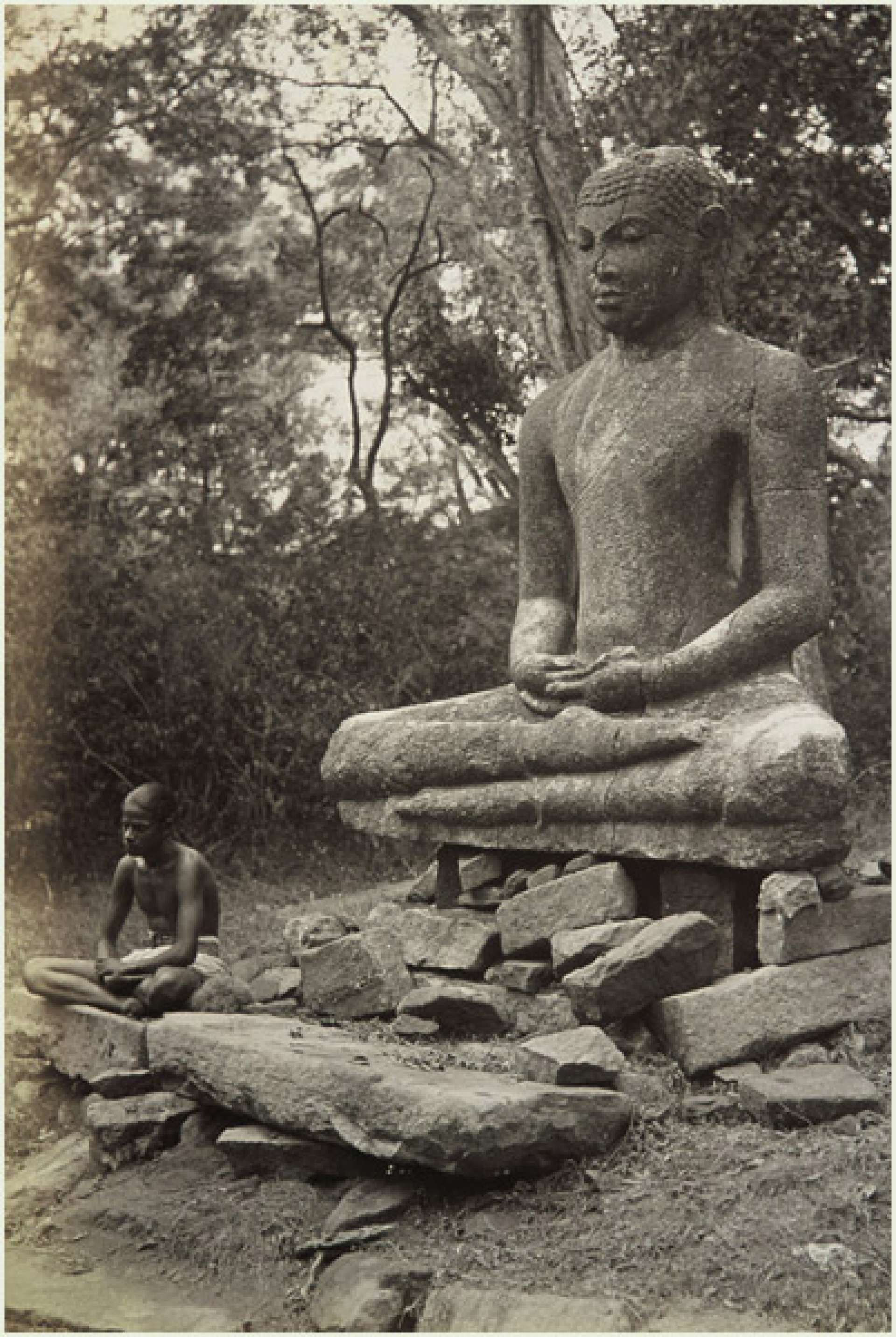 "Boy with Buddha" W.L.H. Skeen (1847-1903), Anuradhapura, Ceylon (Sri Lanka).